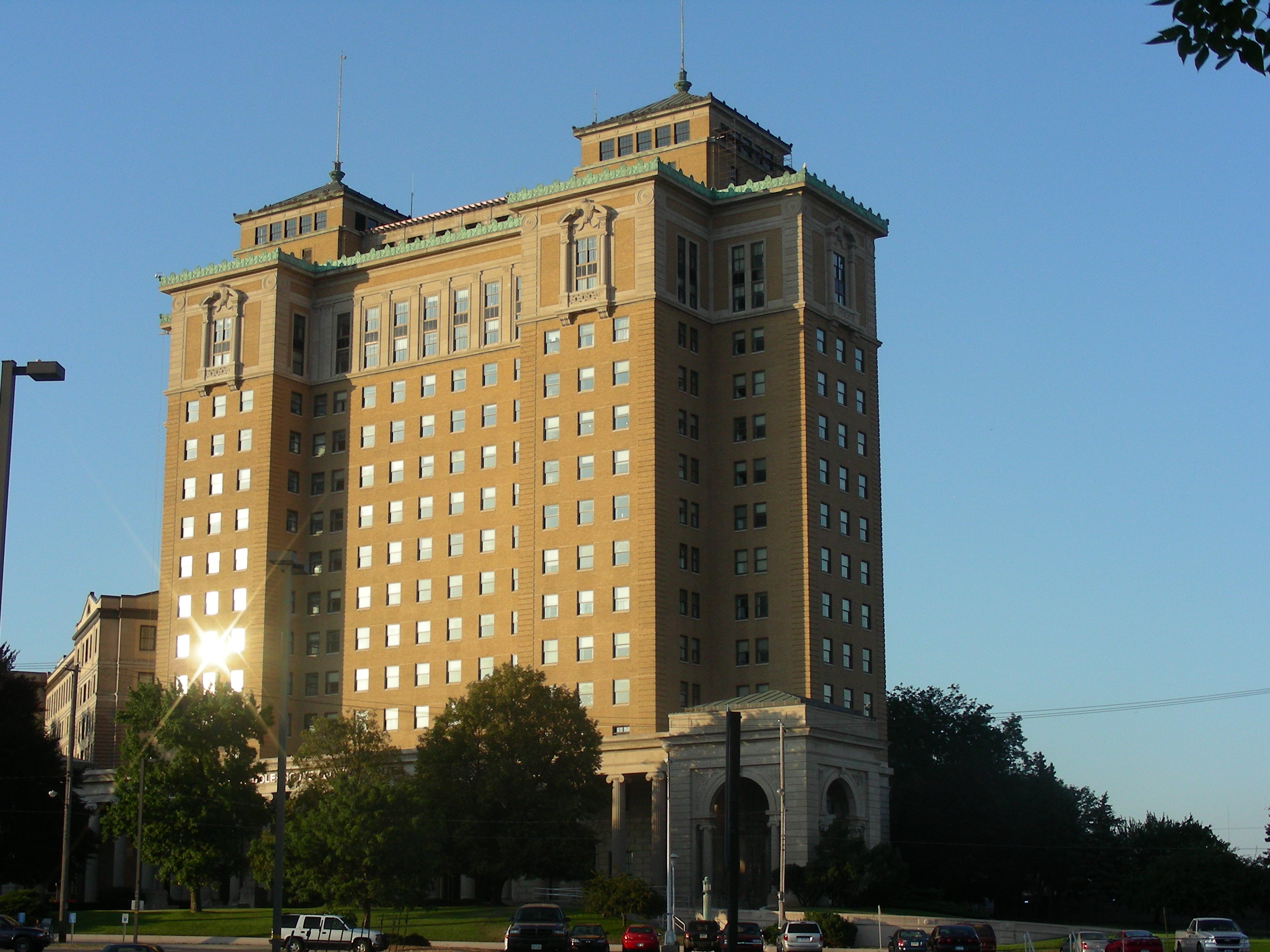 The Federal Center